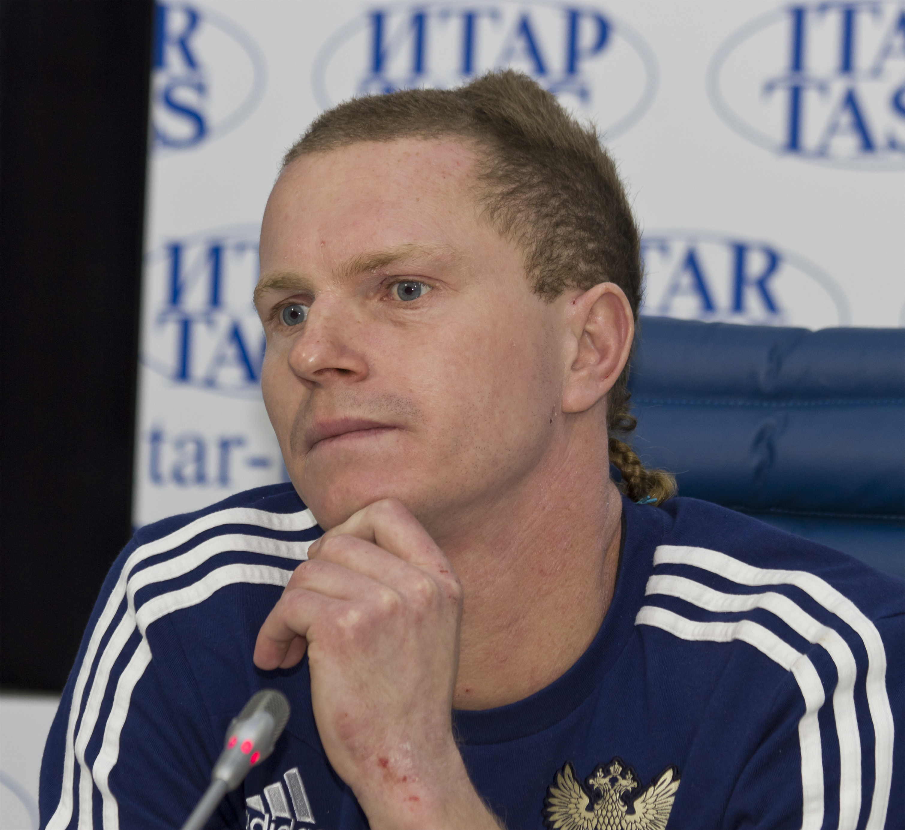 Andrey Bukhlitskiy, Russian beach soccer player. Taken at Press center of ITAR-TASS, Moscow.